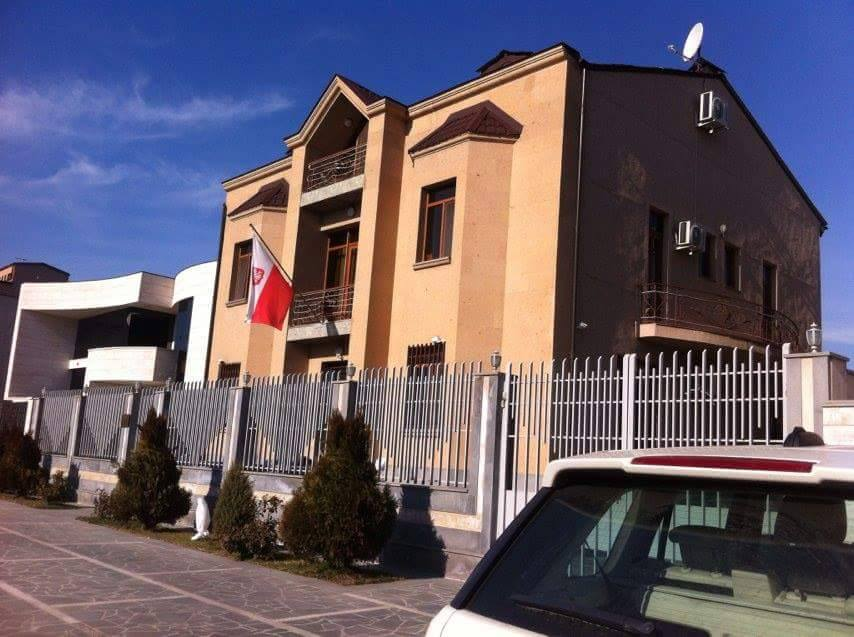 Embassy of Poland in Armenia